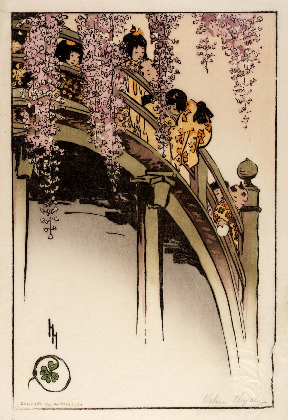 Moon bridge at Kameido - 1914 - Helen Hyde